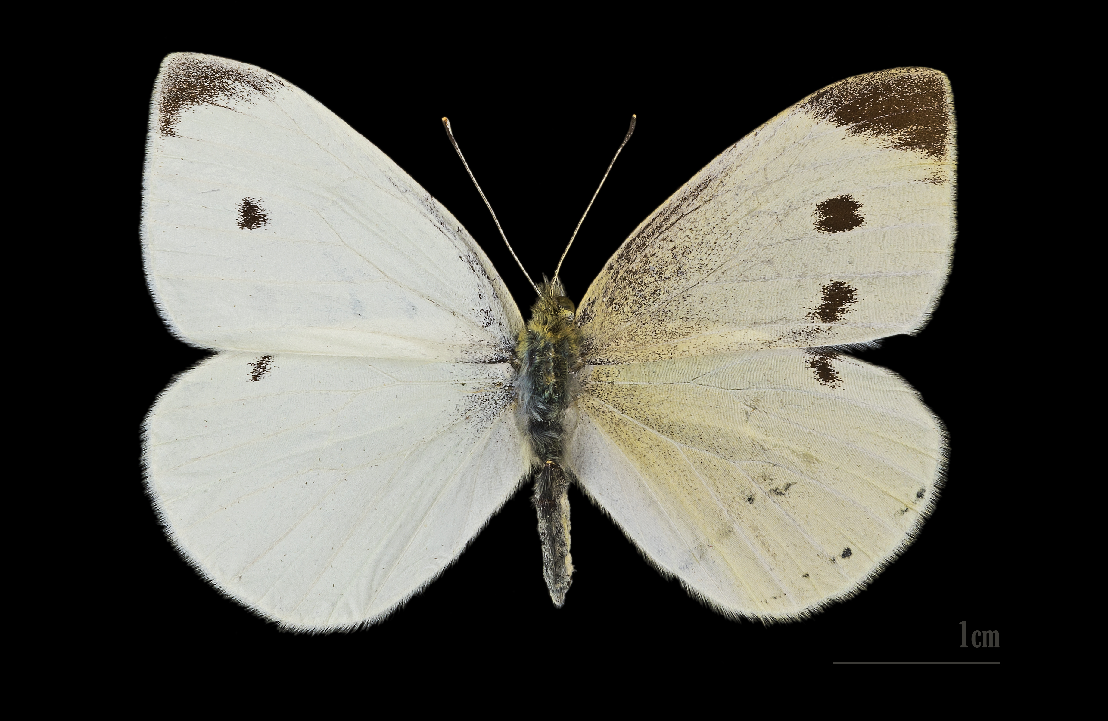 Small White, Gynandromorph ♂♀